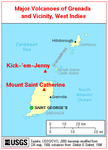 Map of Grenada showing the location of its two volcanoes.